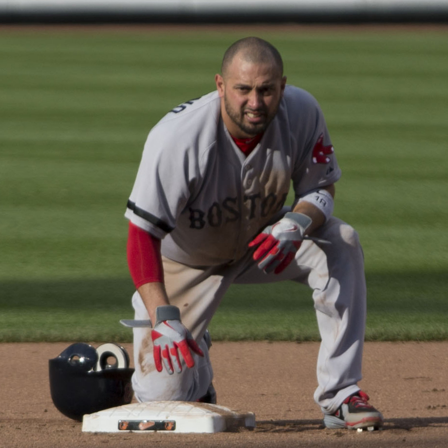 Shane Victorino